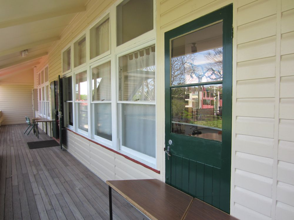 Detail of Boulton and Paul verandah walls (2015)